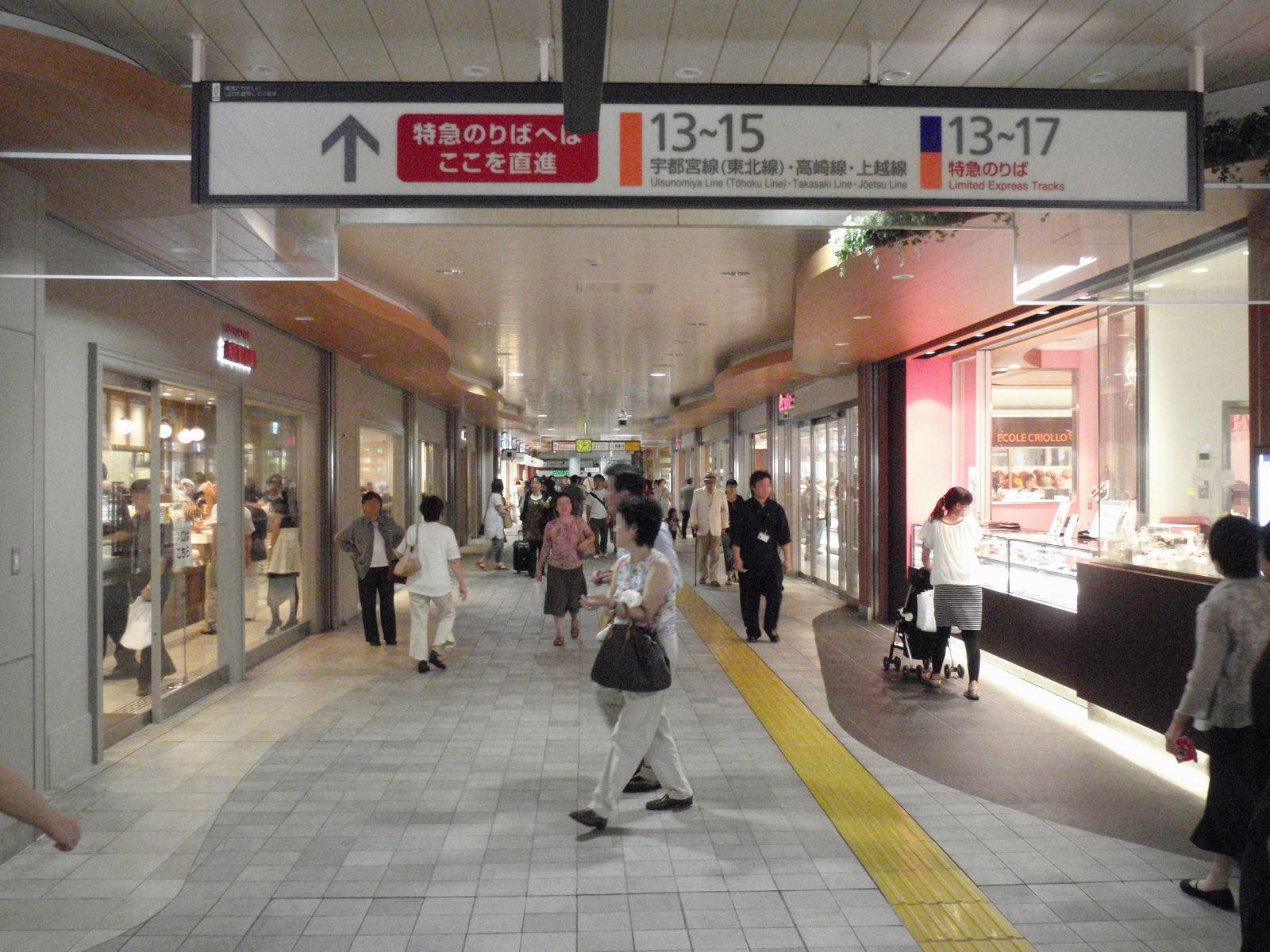 ecute Ueno